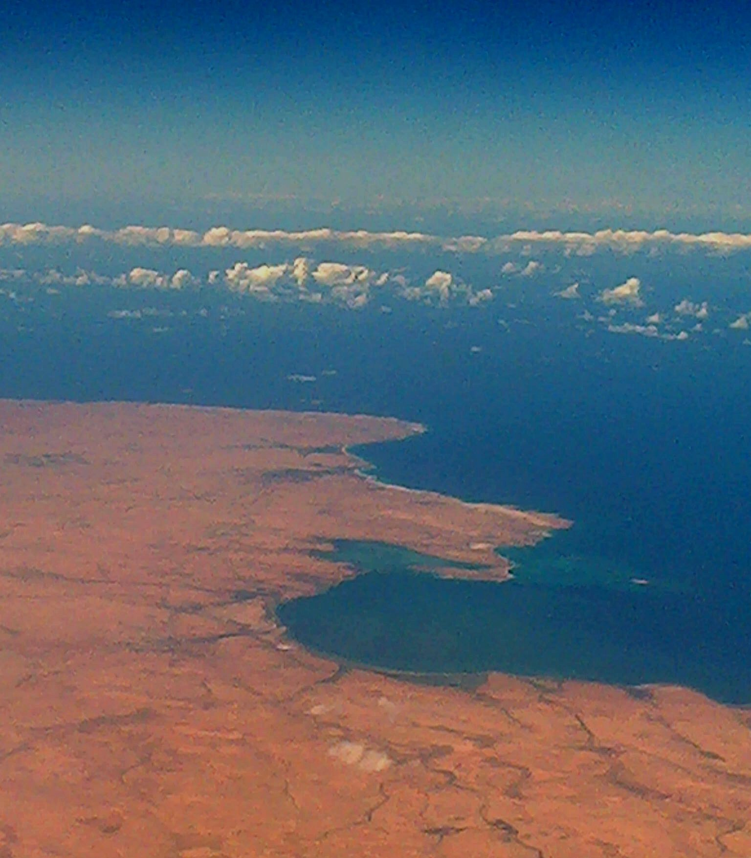 Aerial image of gulf of Bomba, Libya.